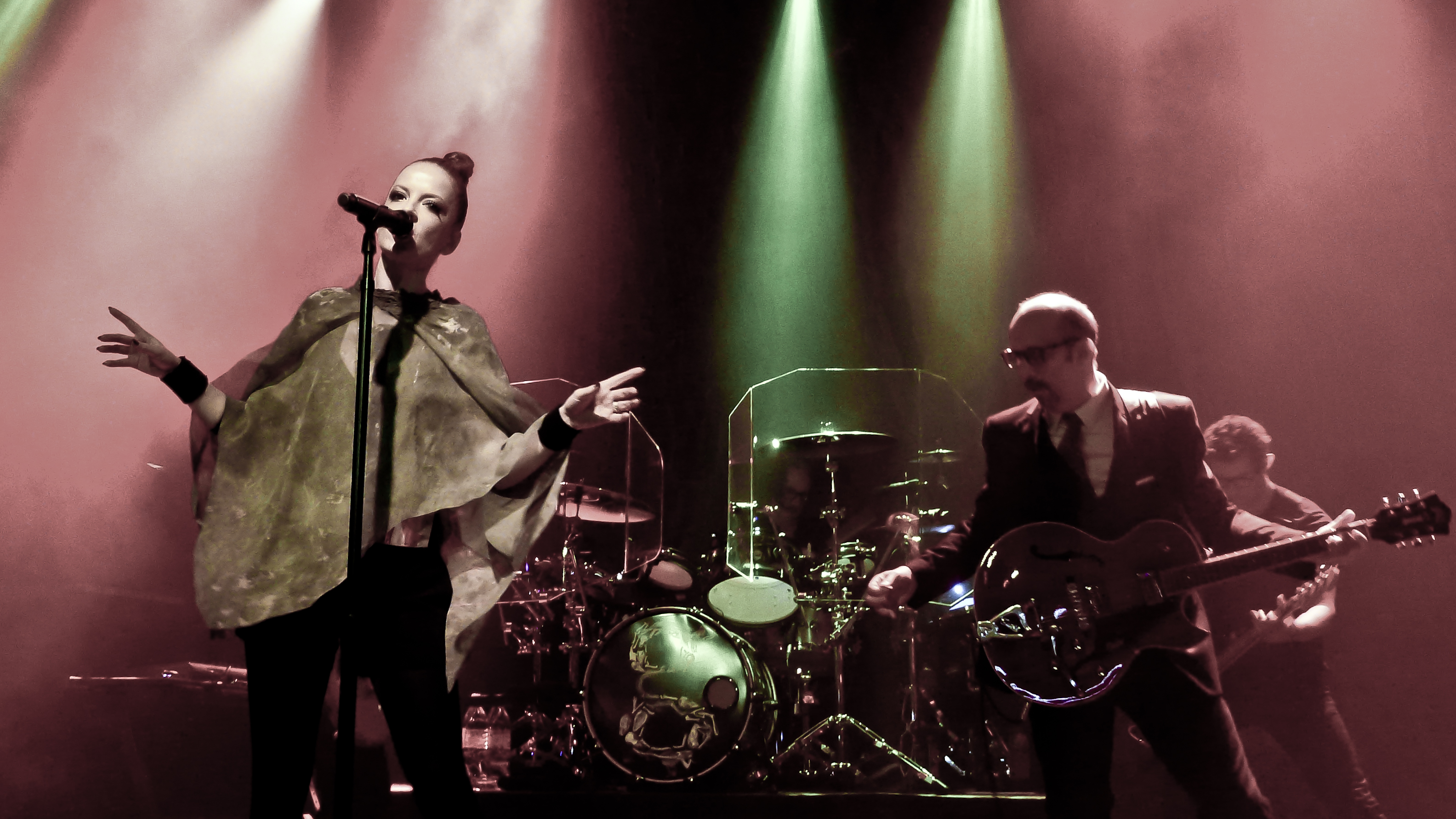 G arbage live 2012